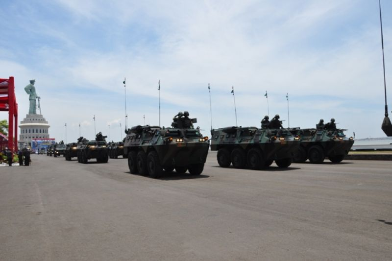 Armoured personnel carriers of the Indonesian Army on parade.